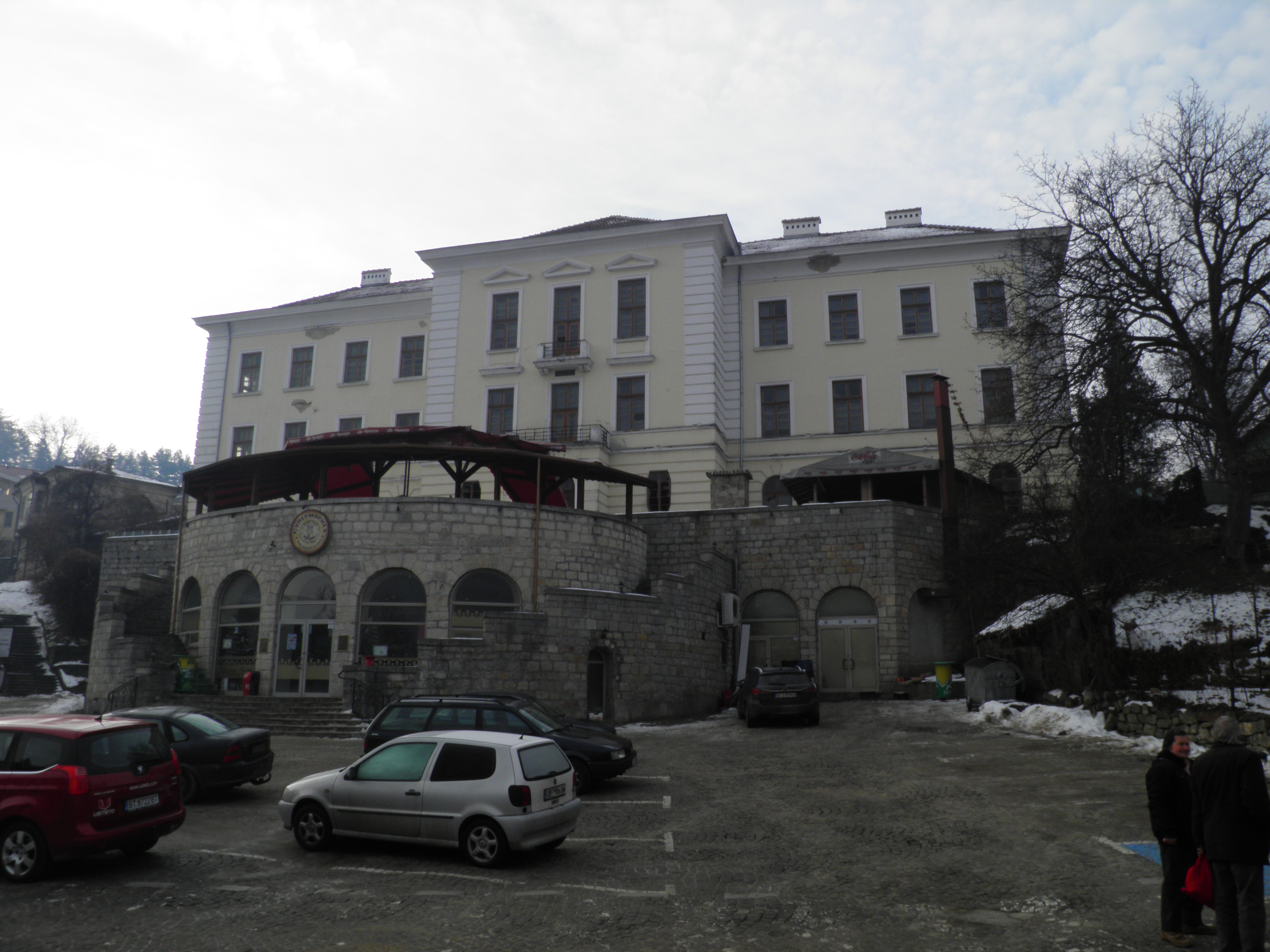 High school in Elena 2019